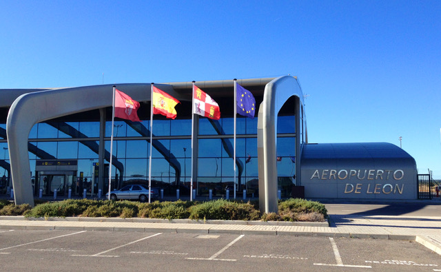 New terminal León airport